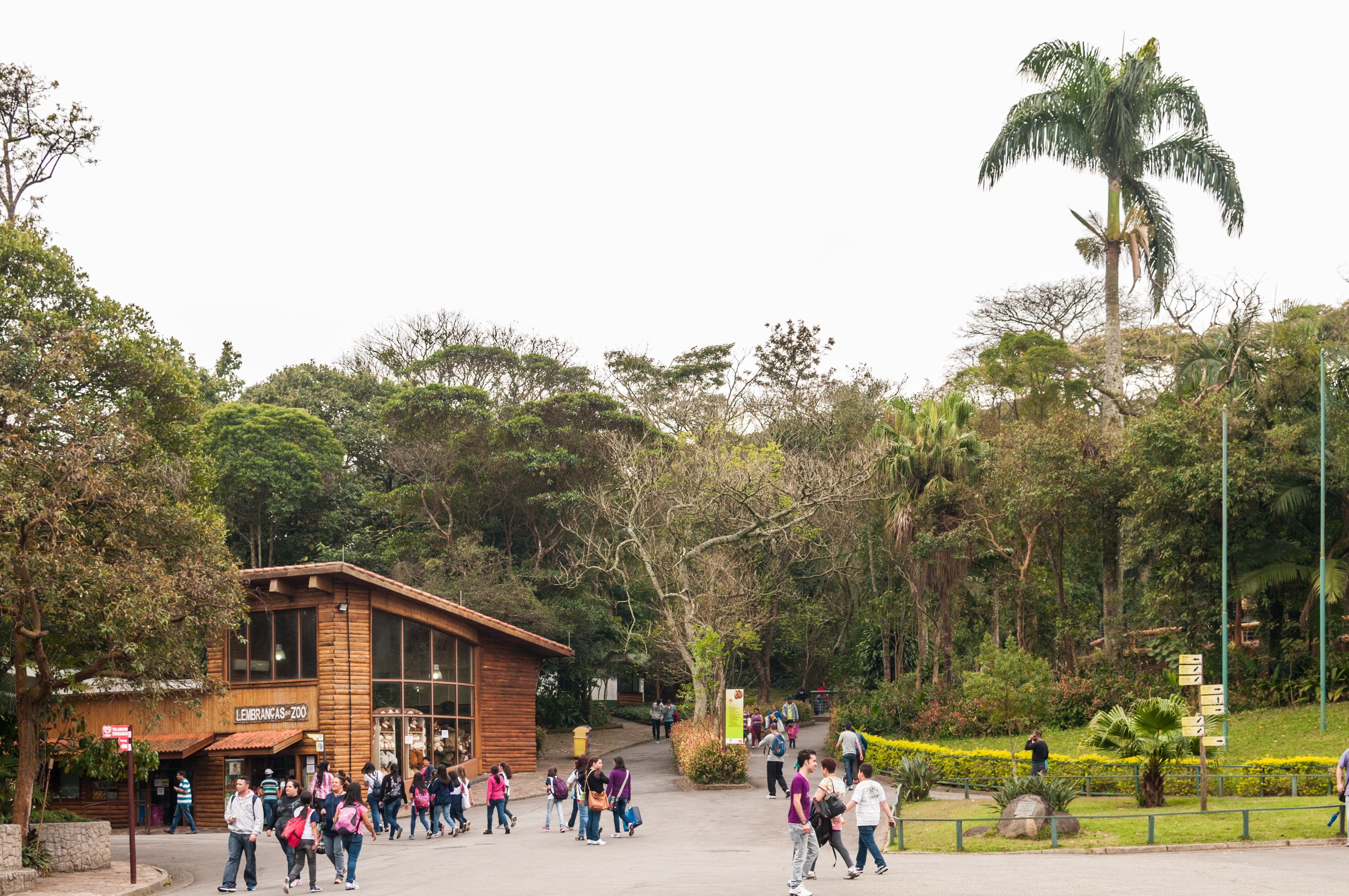 São Paulo Zoo, welcome view